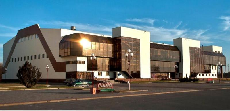 Брестский ледовый дворец спорта